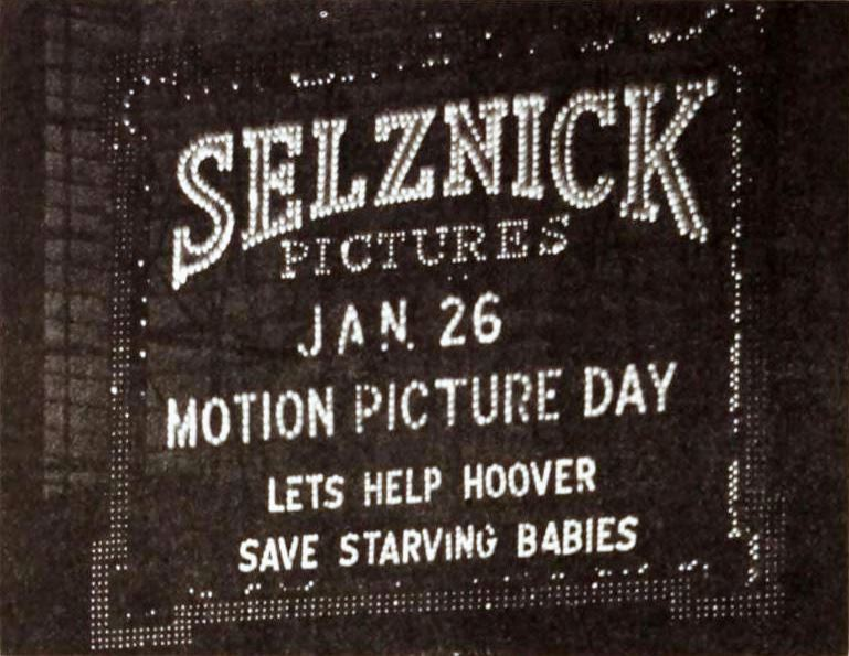 One of the large electric light sign at the corner of 47th Street and Broadway, New York City, promoting the European relief mission organized by future President Hoover through a Motion Picture Day on January 26, 1921, where proceeds would go to fund operations of the American Relief Administration, on page 52 of the January 29, 1921 Exhibitors Herald.